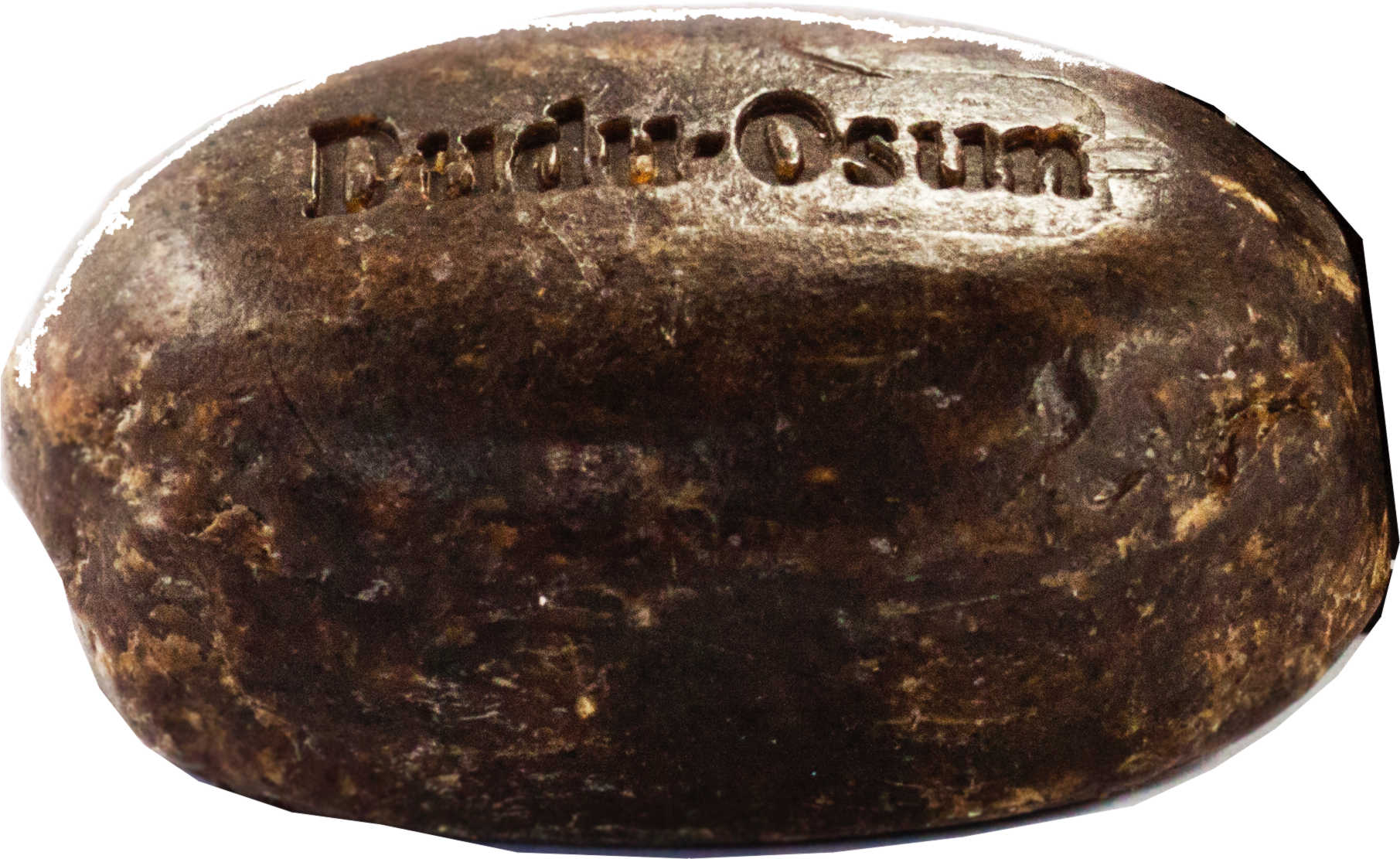 Dudu Osun is made from the ash of palm tree pieces, shea butter and palmkernoil.